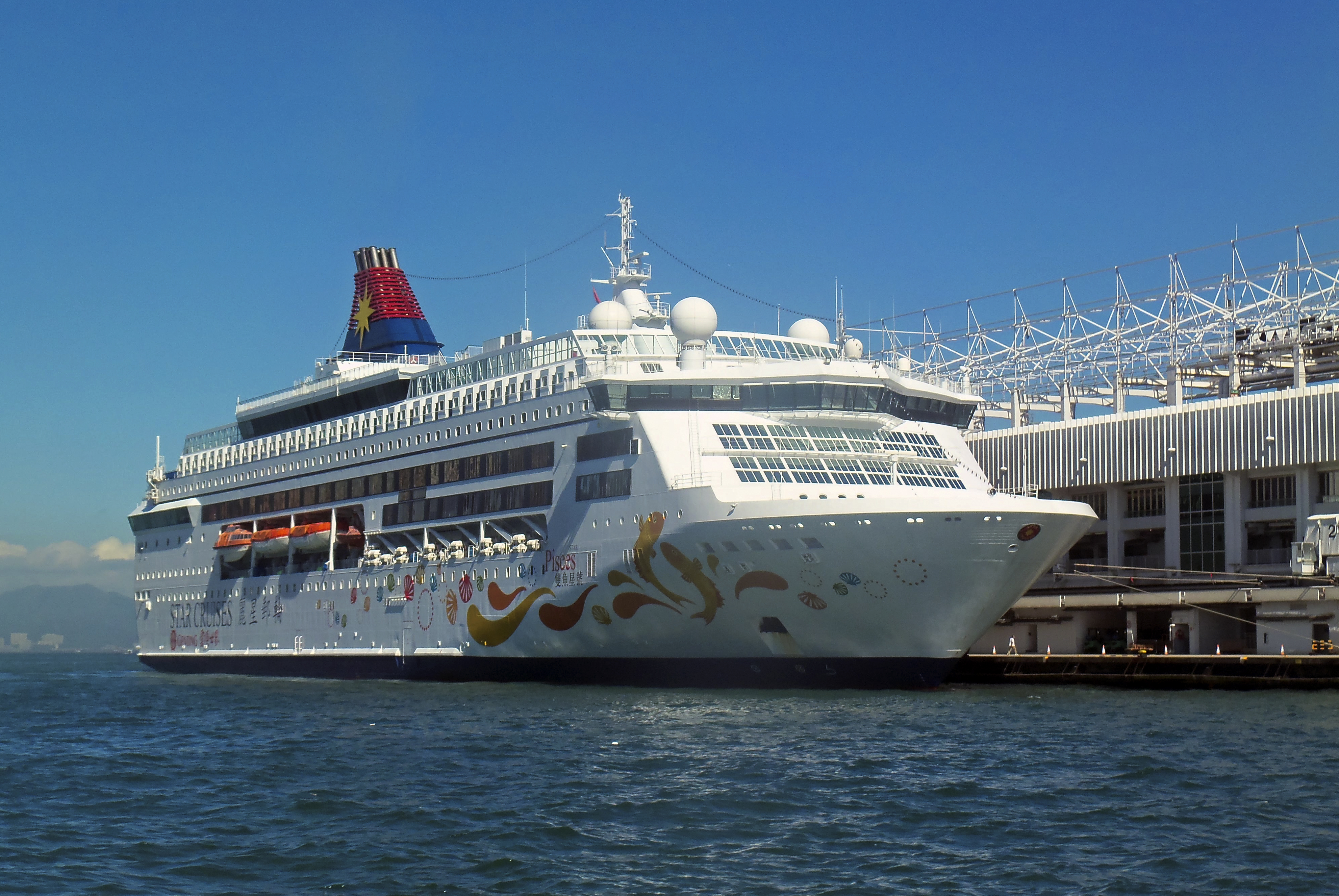 The MS Star Pisces at Ocean Terminal, Hong Kong, from the nearby Star Ferry pier.